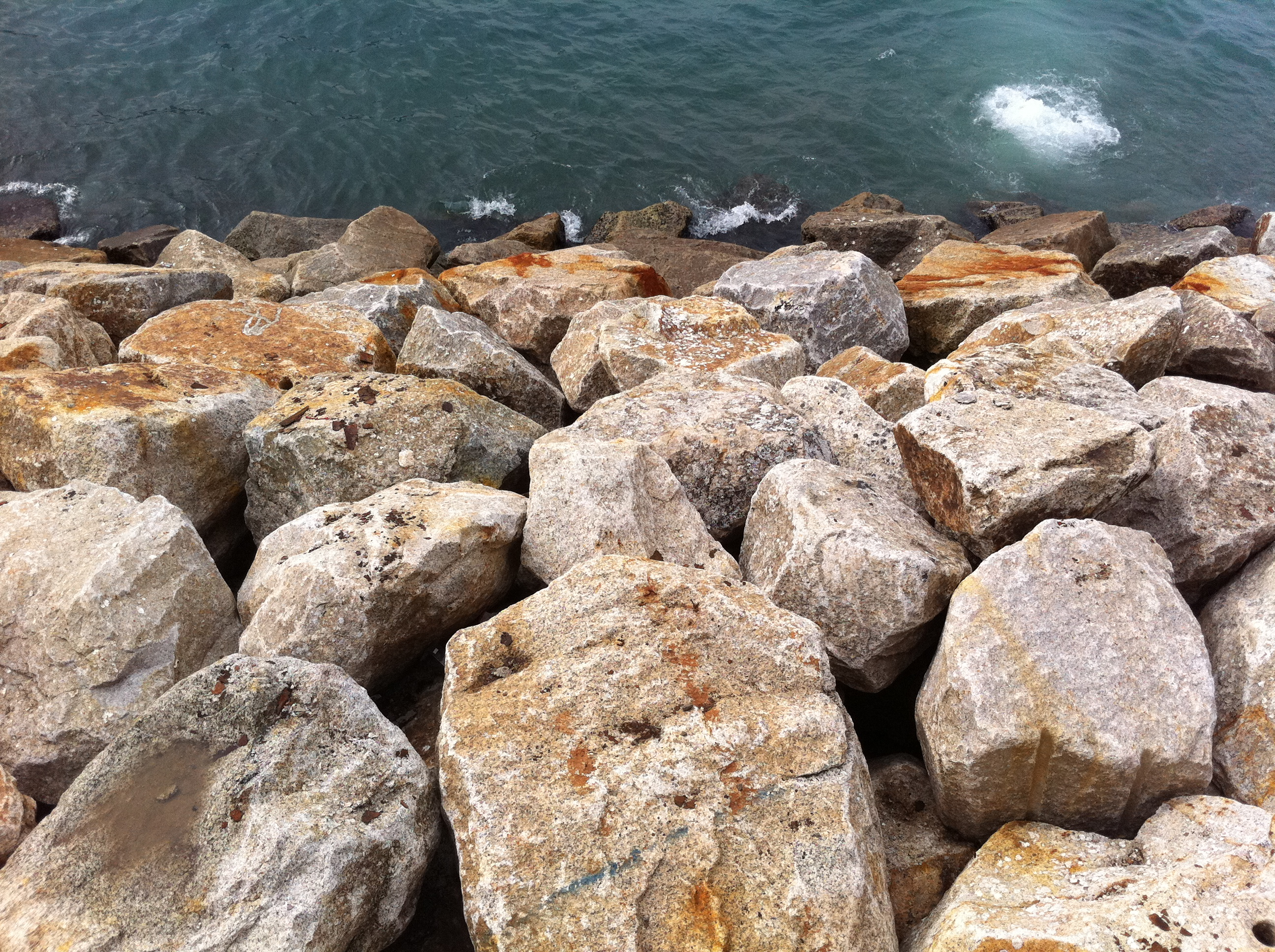 Wan Chai waterfront promenade, Wan Chai, HK